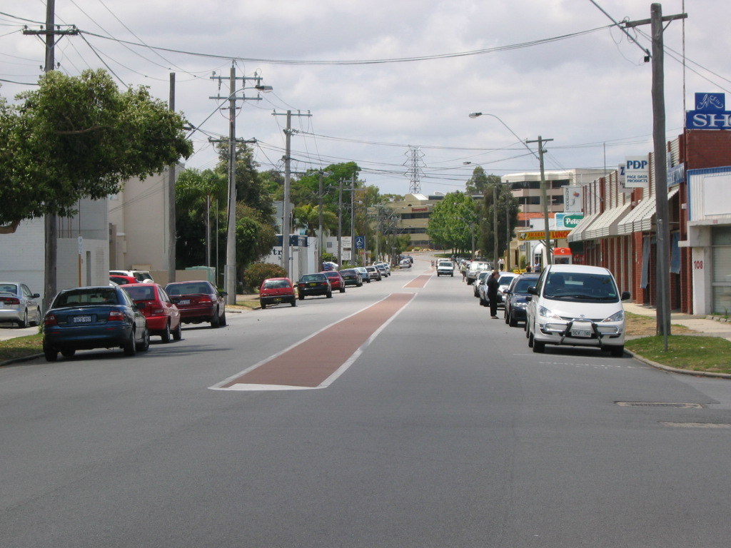 Burswood Road, Burswood, Western Australia.